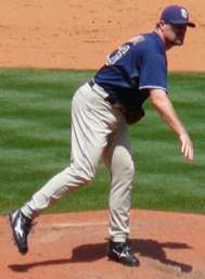 Picture I took of Doug Brocail on 5-10-07 23:26, 13 May 2007 . . Chrisjnelson . . 189×257 (92,517 bytes)